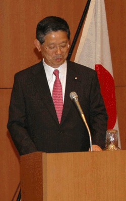 Japanese politician Nobutaka Machimura, from Rice's visit to East Asia from July 8-July 13, Secretary Rice met with Japanese Foreign Minister Nobutaka Machimura at the Foreign Ministry in Tokyo. (cropped version)